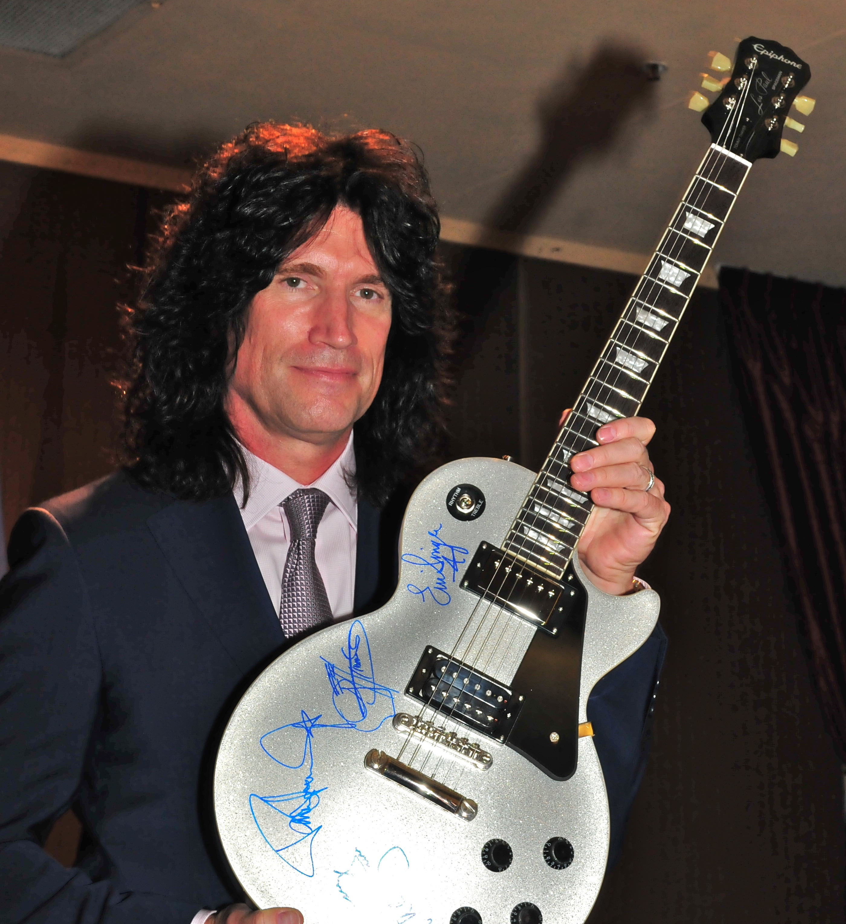 KISS guitarist Tommy Thayer holding up an autographed guitar, at a 2013 event honoring his father, retired Brigadier General James B. Thayer, and others. The event was called the All-Star Salute to the Oregon Military and was held at the Governor Hotel in Portland, Oregon, on April 20, 2013. Photo by Sgt. Cory Grogan, 115 Mobile Public Affairs Detachment.